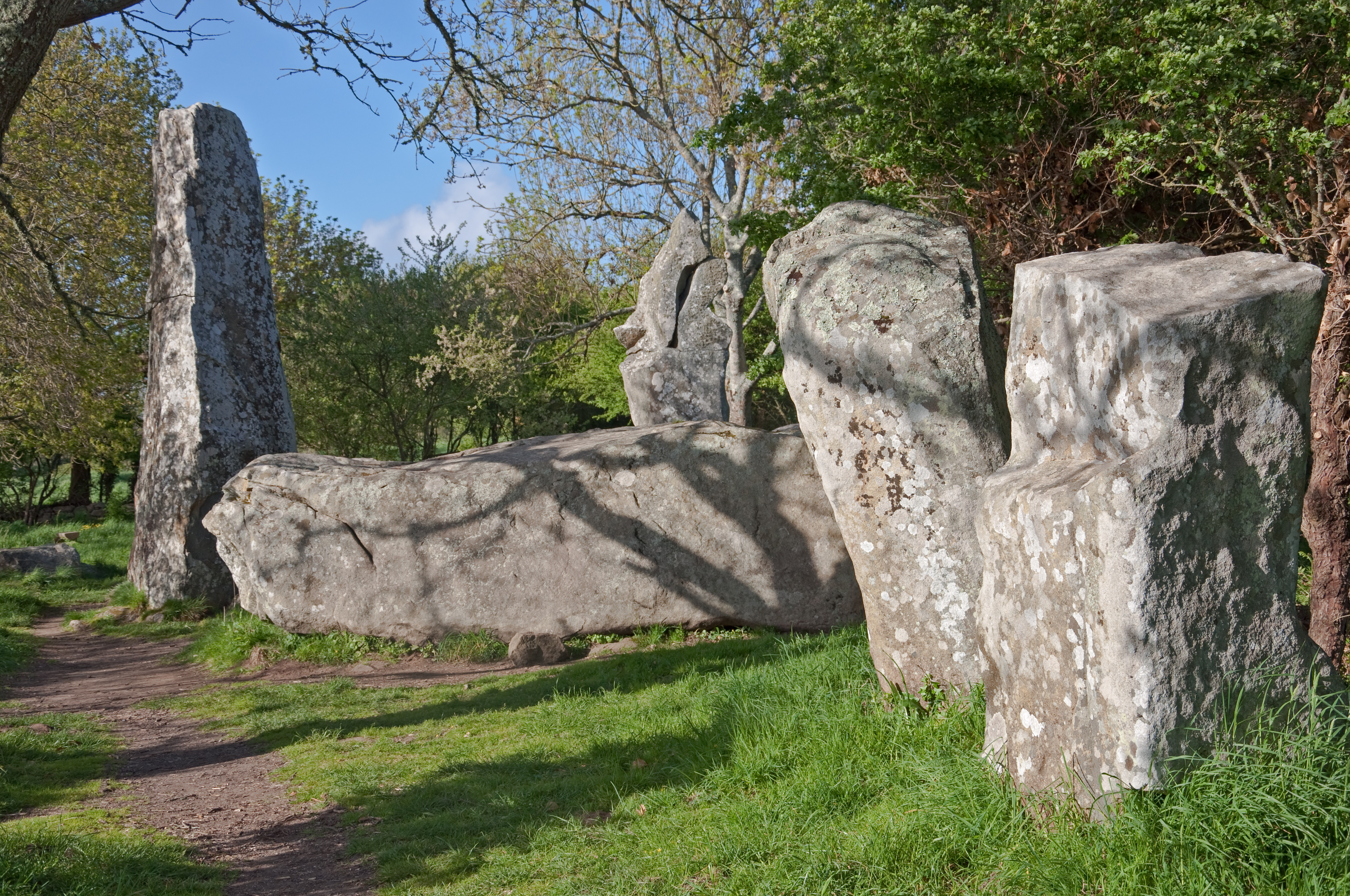 The “Kerzerho Giants”, in Erdeven near Carnac (Morbihan, Brittany, France)